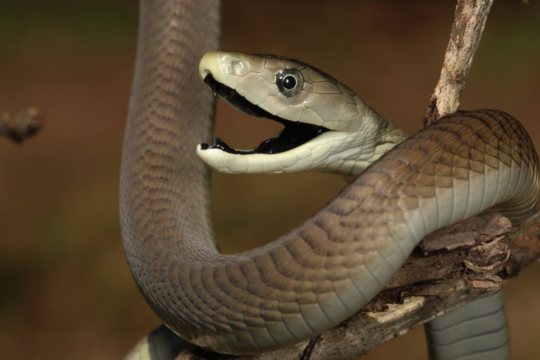 Dendroaspis polylepis - Durban, South Africa